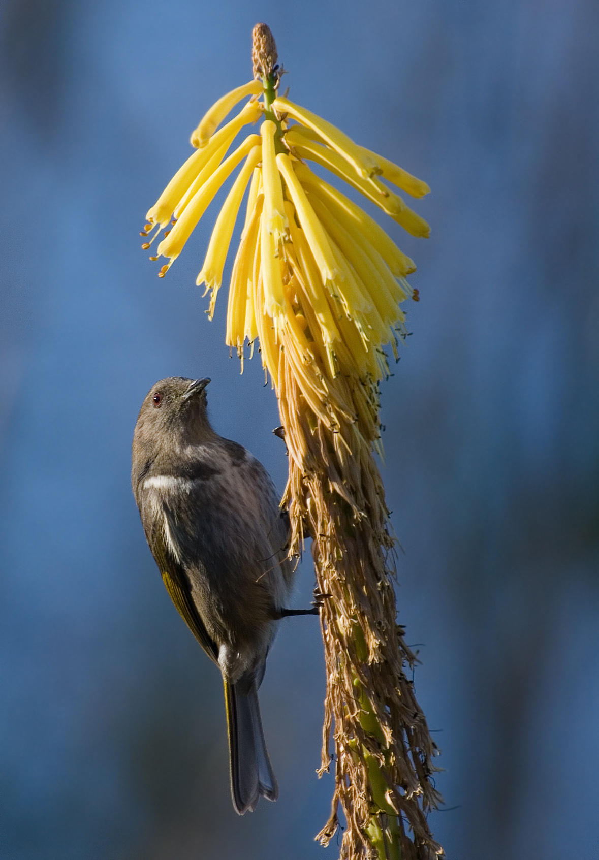 A female crescent honey eater (Phylidonyris pyrrhopterus).